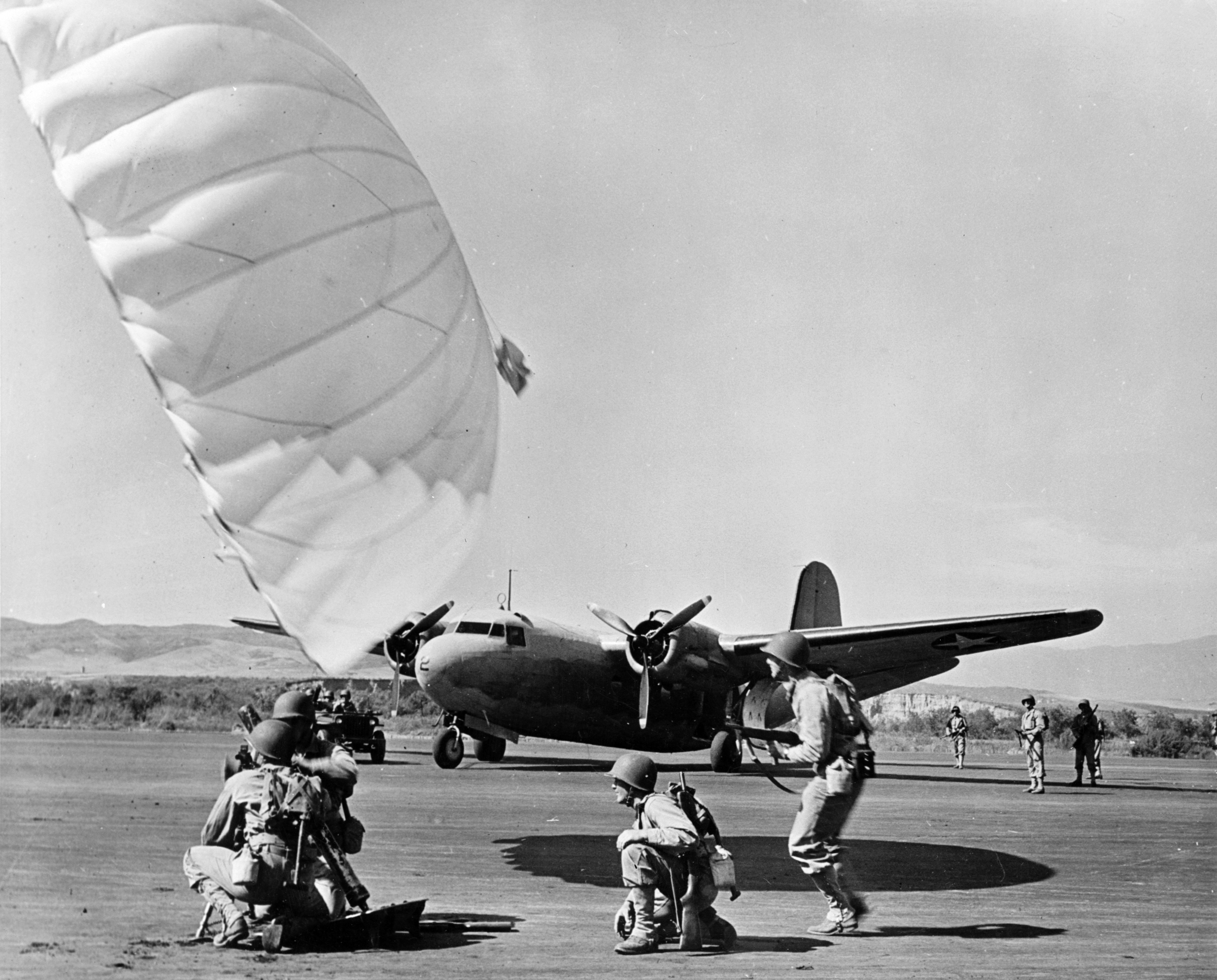 Douglas R3D-2 transport planes of the United States Marine Corps used in a maneouver in 1942.